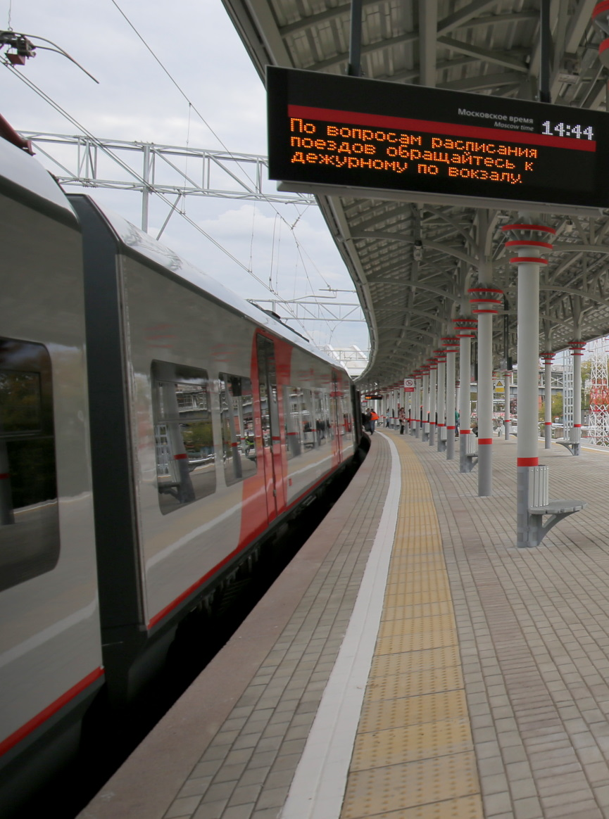 "Streshnevo" MCC station